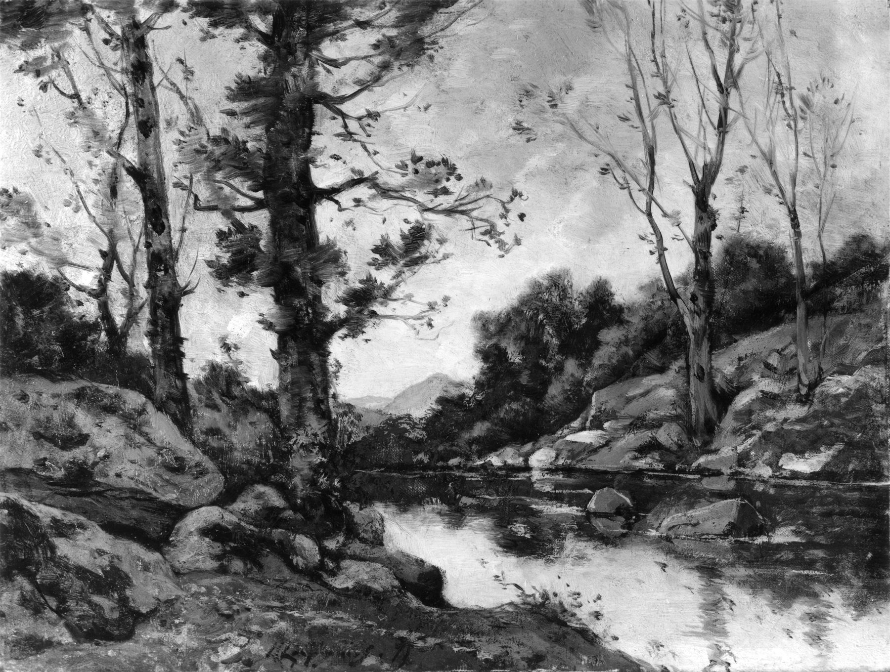 Harpignies enjoyed an extraordinarily long career, which lasted more than seven decades. He is associated particularly with central France and the countryside around the Loire River and its tributaries, such as the Allier River. He was deeply influenced by the work of Corot, as is evident in the light, bluish tones of this picture.